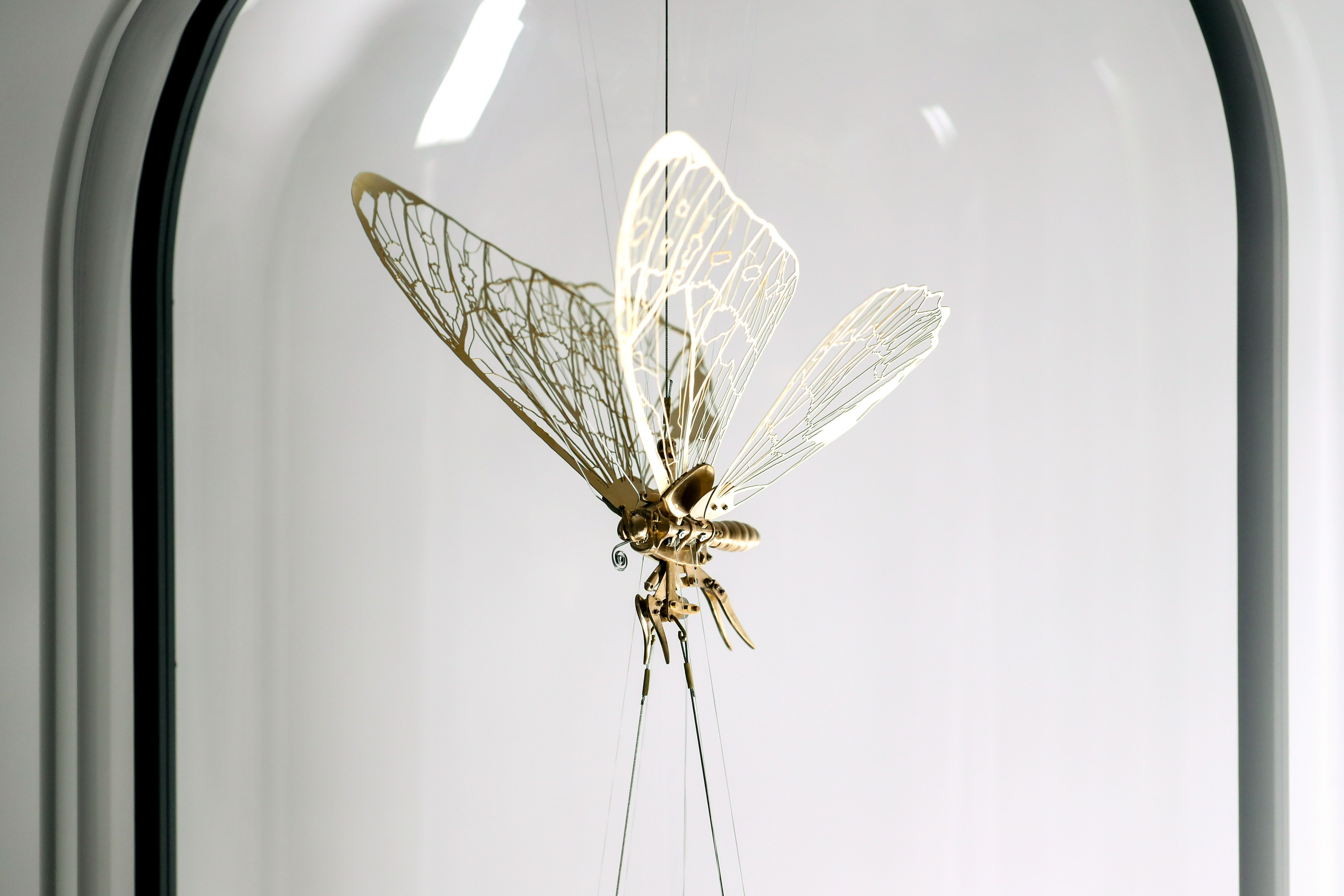 Electronically interactive model of a butterfly presented within a glass display jar.